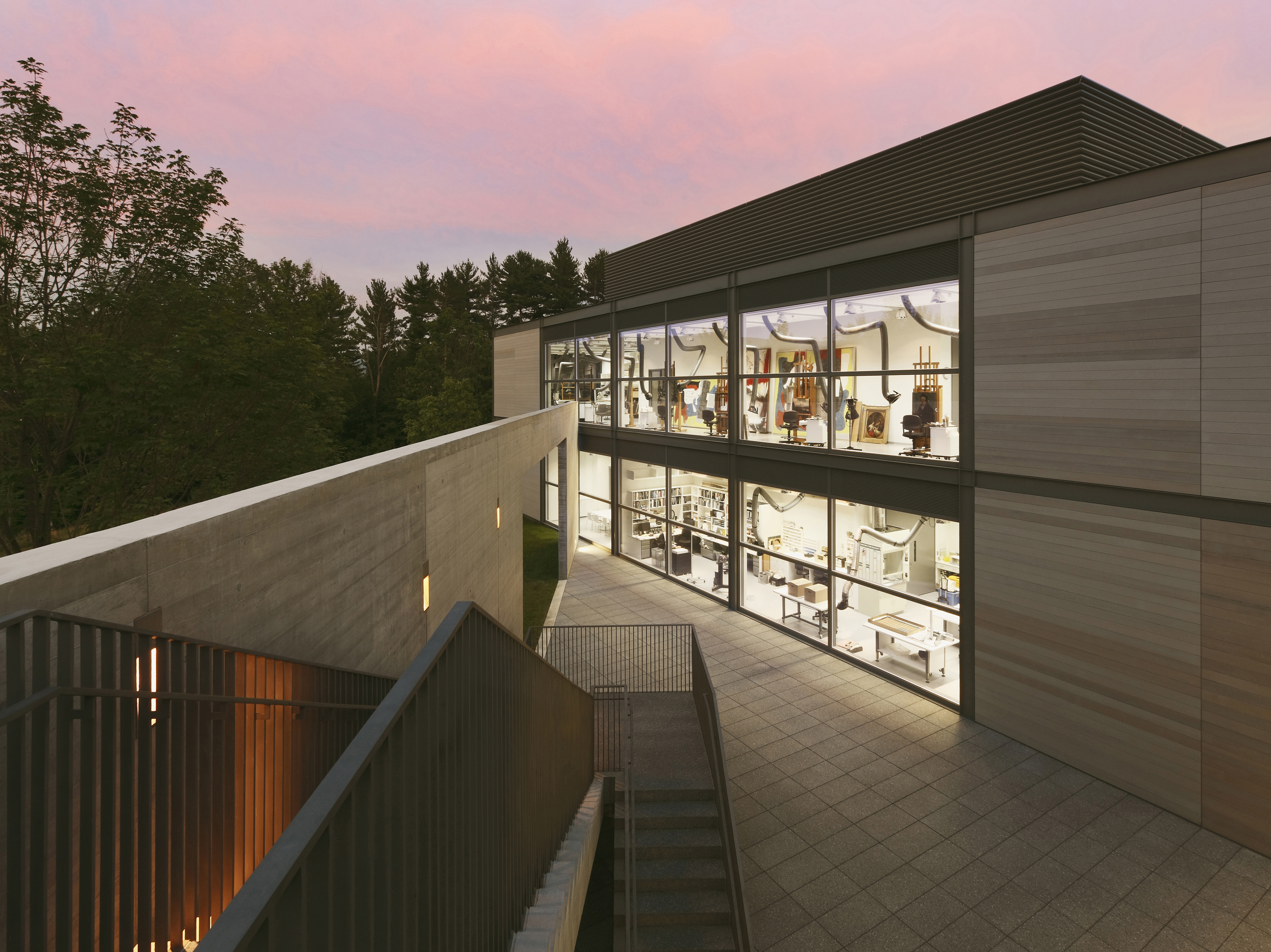 View from the terrace into the Williamstown Art Conservation Center